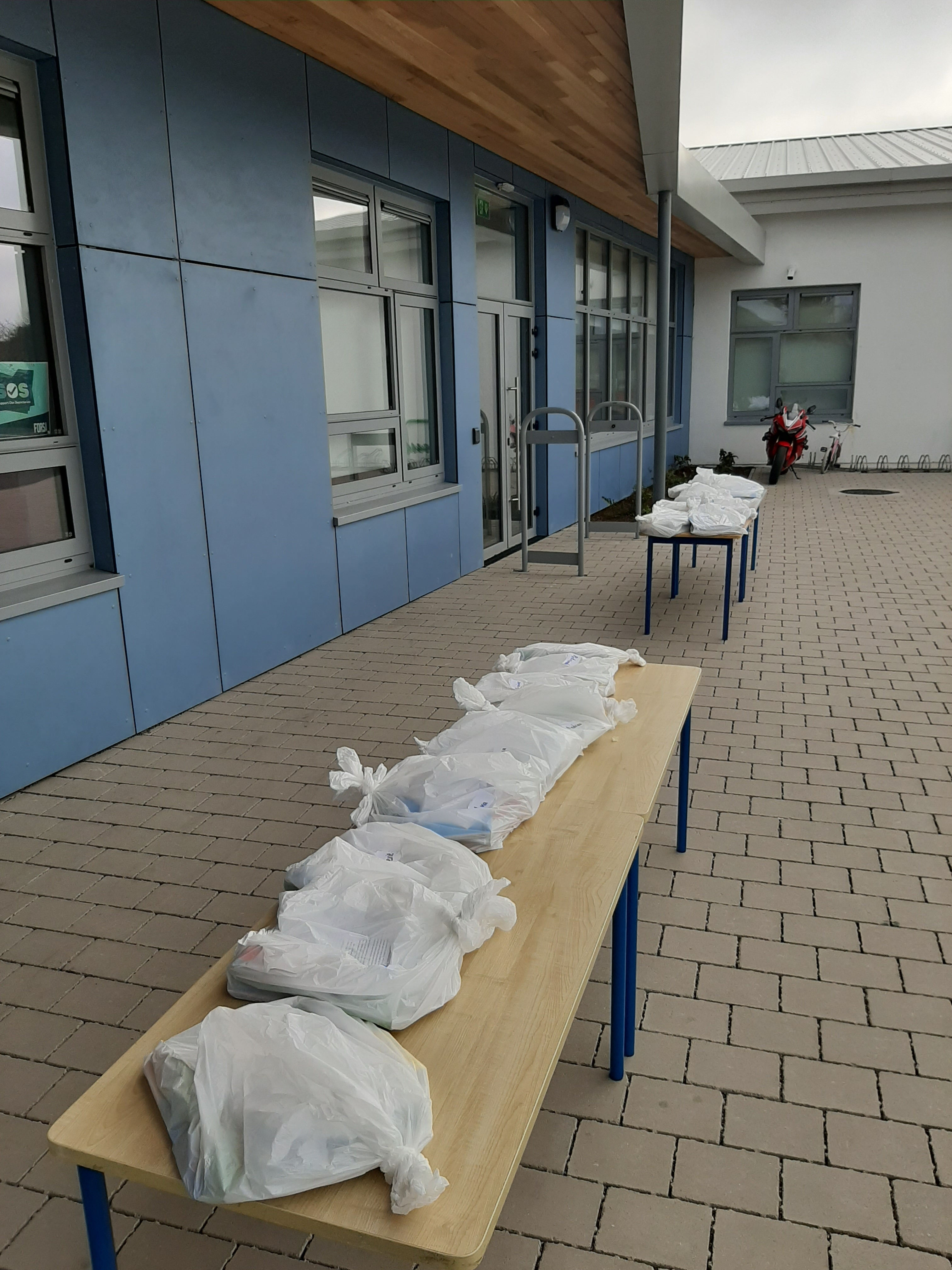 Books placed outside an Irich primary school for collection during the 2020 coronavirus pandemic